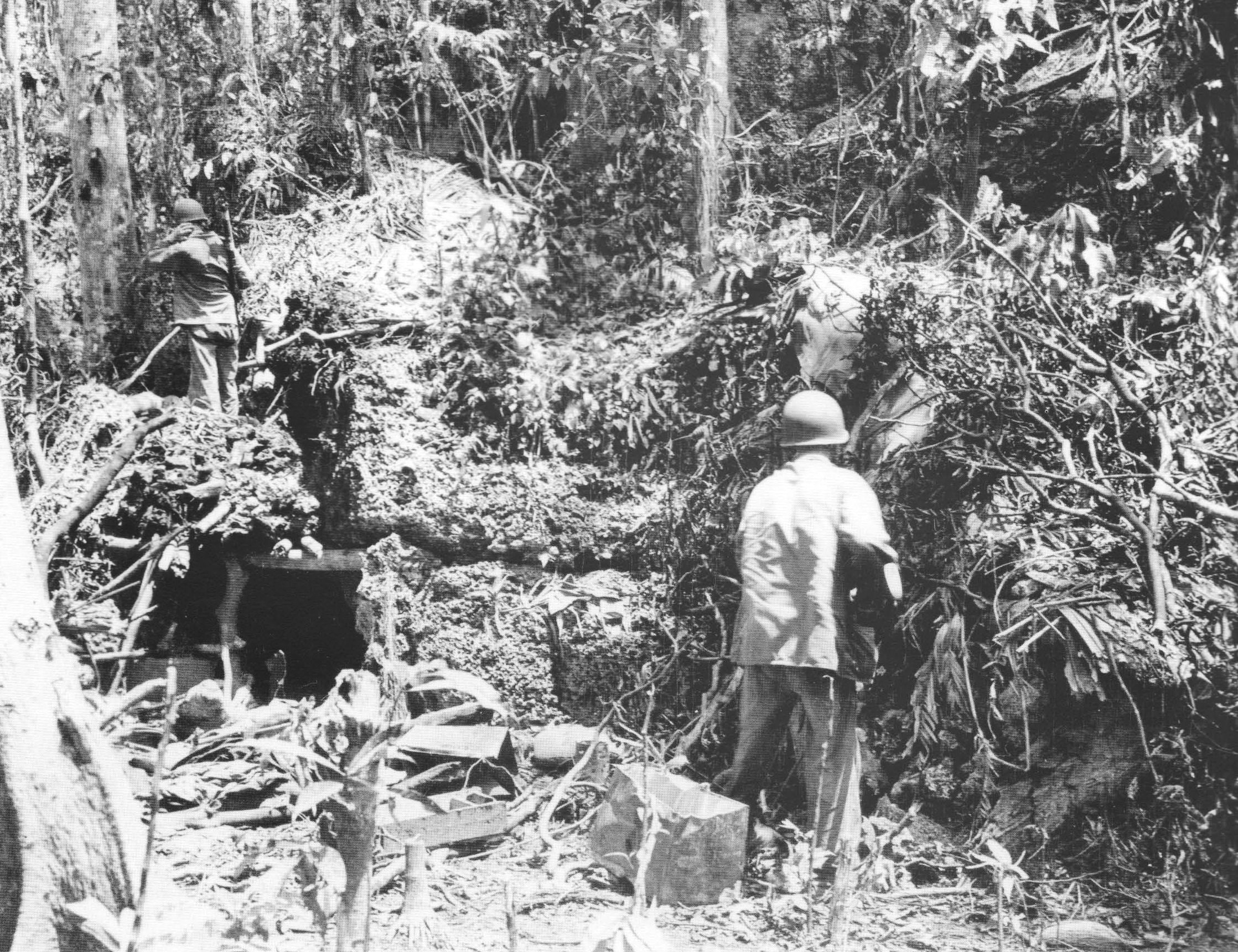 Two U.S. Marines check a Japanese bunker constructed of coral blocks in the Point Cruz area of Guadalcanal in November, 1942.